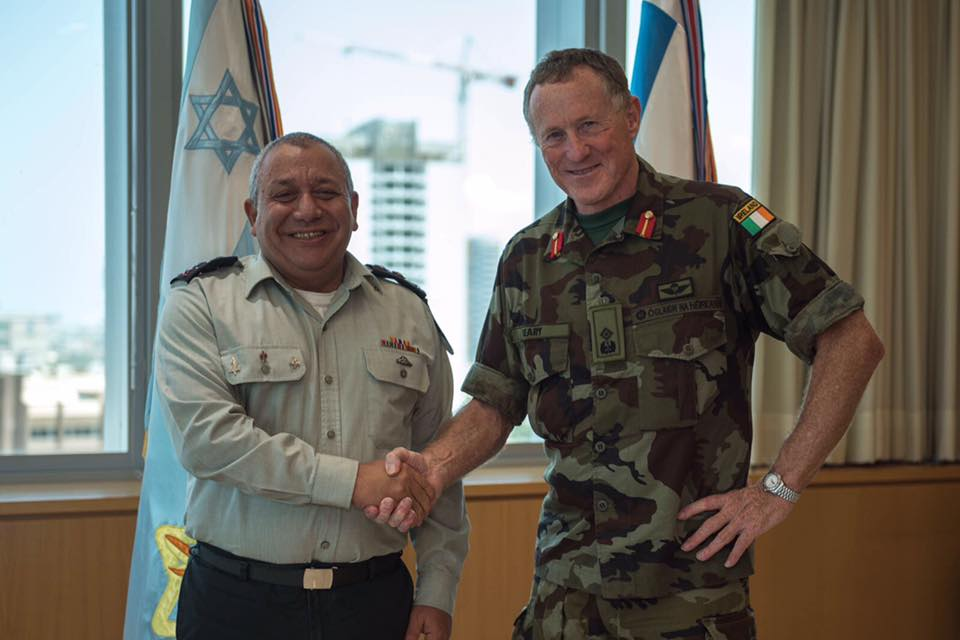 Chief of General Staff, LTG Gadi Eisenkot meeting with UNIFIL Head of Mission and Force Commander Maj. Gen. Michael Beary, as part of the IDF's ongoing dialogue with UNIFIL.